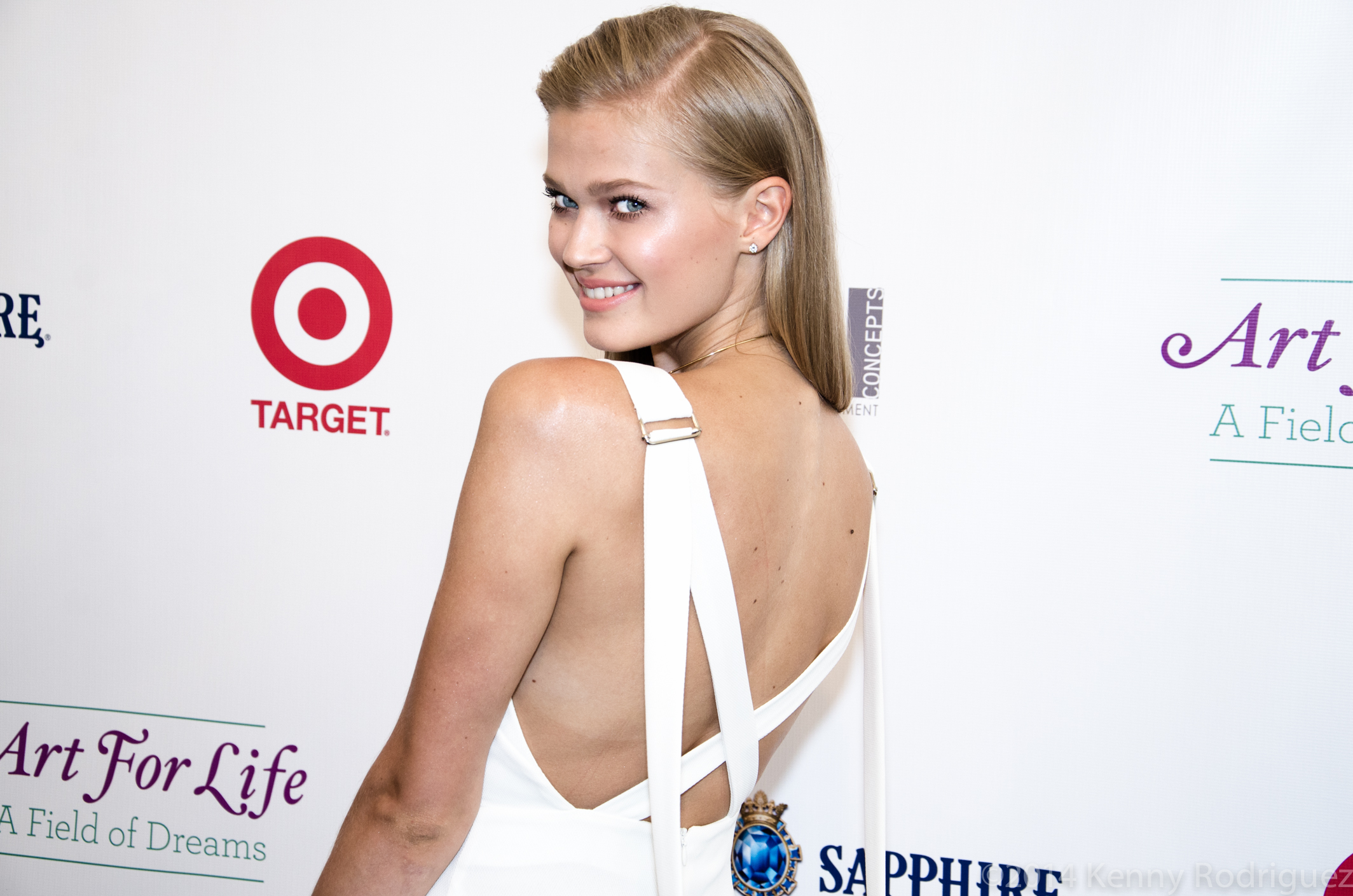 15th Annual Art For Life Gala Hosted by Russell and Danny Simmons - Program & Dinner